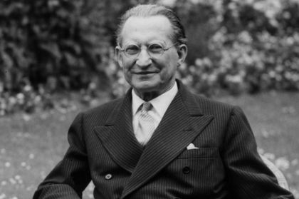 Alcide De Gasperi during 1950s.